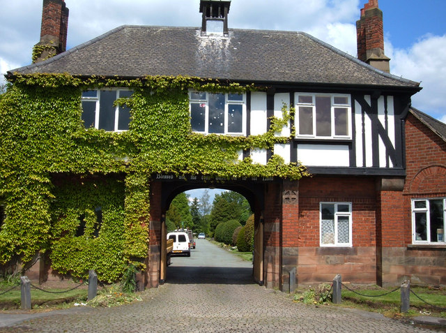 Alderley Edge Cemetery. Looking north through the gate house from the A535, Chelford Road.